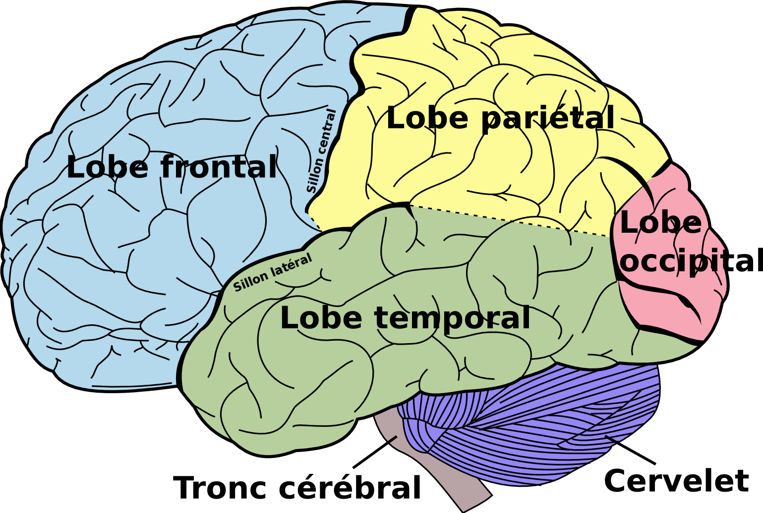 Principal fissures and lobes of the cerebrum viewed laterally. Principal lobes of the cerebrum viewed laterally. Figure 728 from Gray's Anatomy.